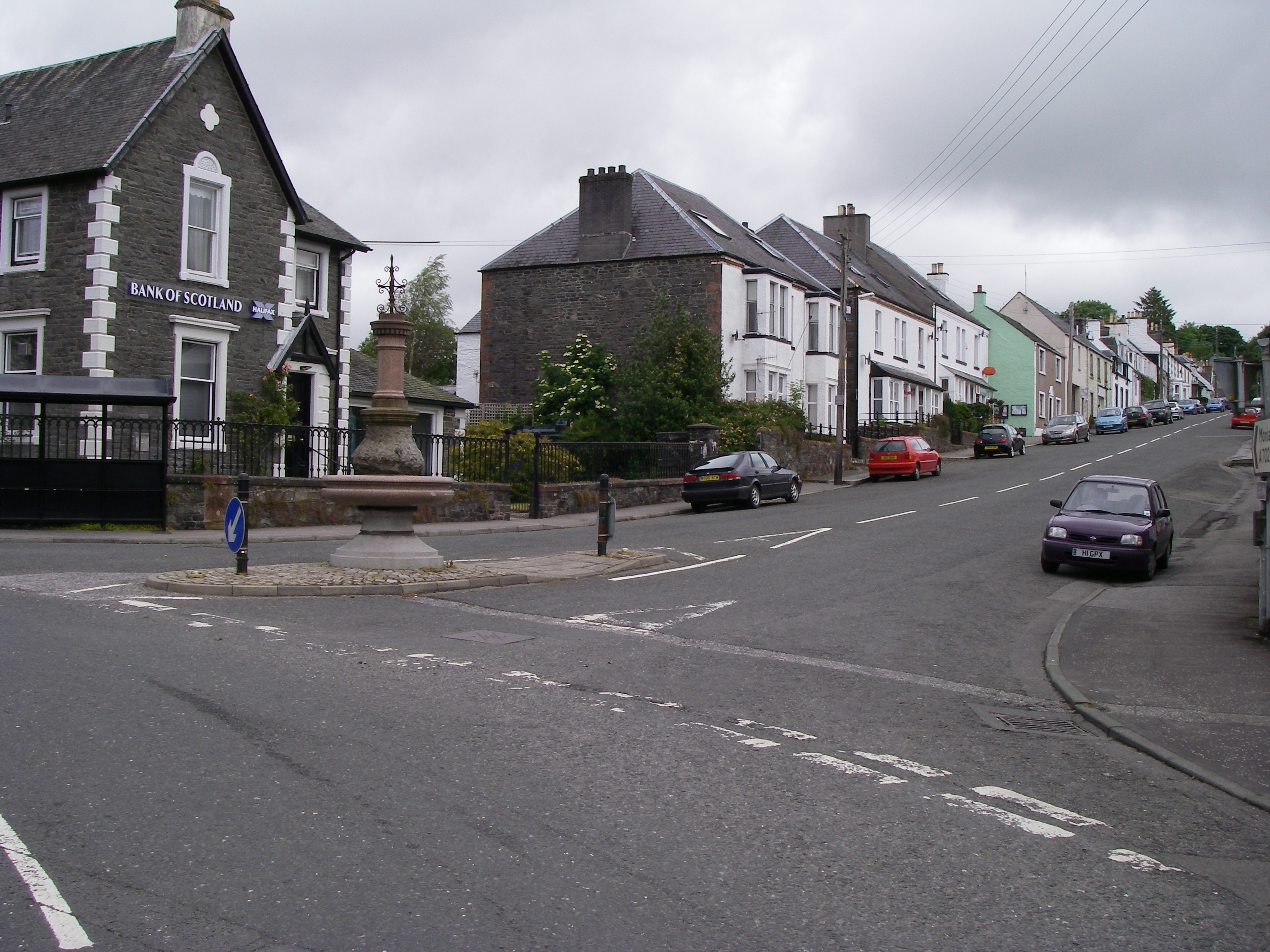 Junction of the A702 and A713 in St John's town of Dalry, June 2009